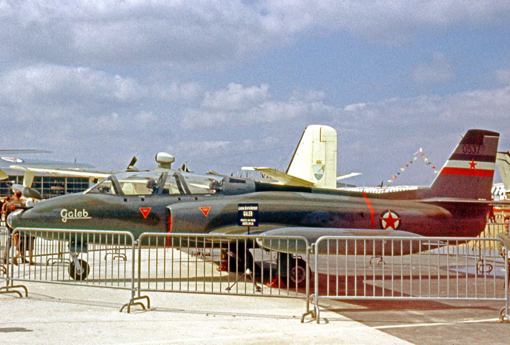 Soko G.2 Galeb 0537 of the Yugoslav Air Force displayed at the 1963 Paris Air Show